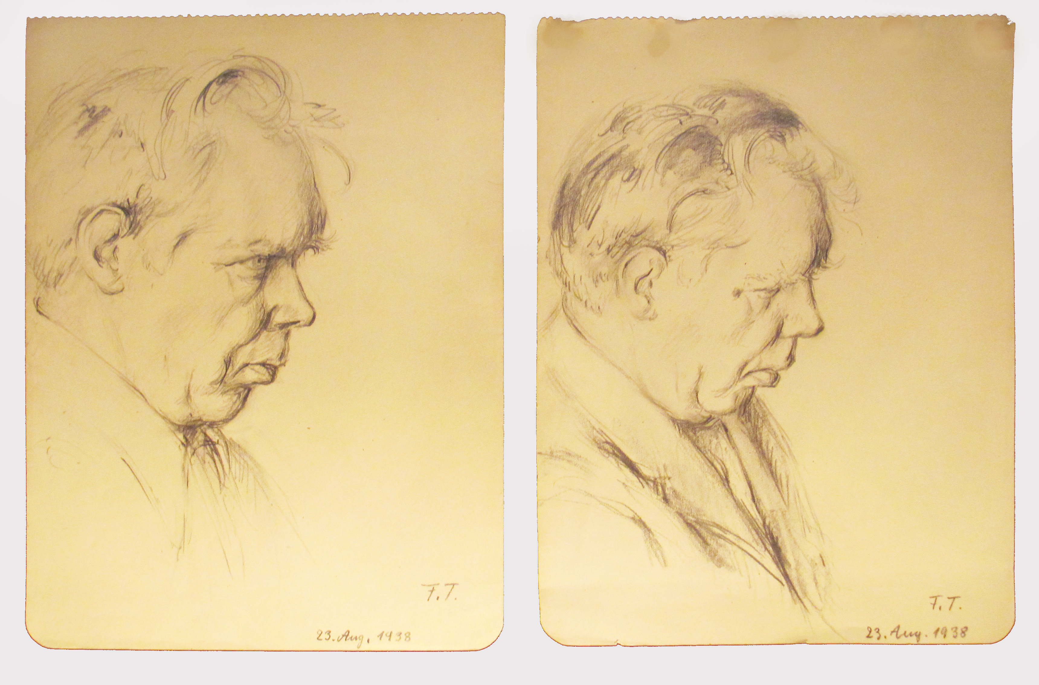 Two drawings of pianist Edwin Fischer by the German artist and musician Fritz Tennigkeit (1892 - 1949)